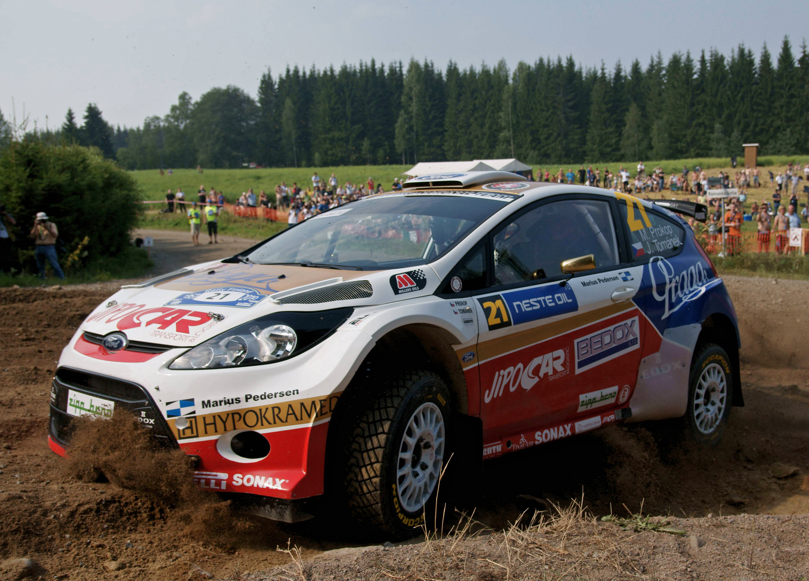 Martin Prokop driving at Rannakylä shakedown in Muurame.